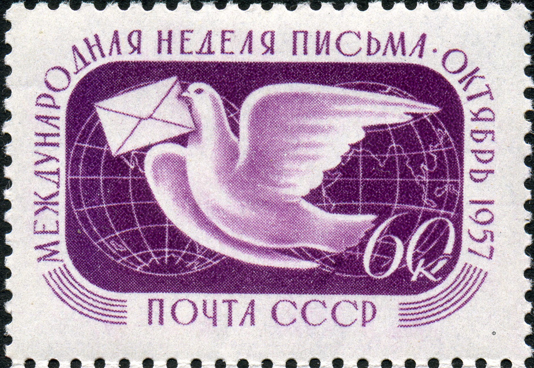 Stamp of the Soviet Union, International Letter Week, 1957, 60 kopecks, CPA 2060.